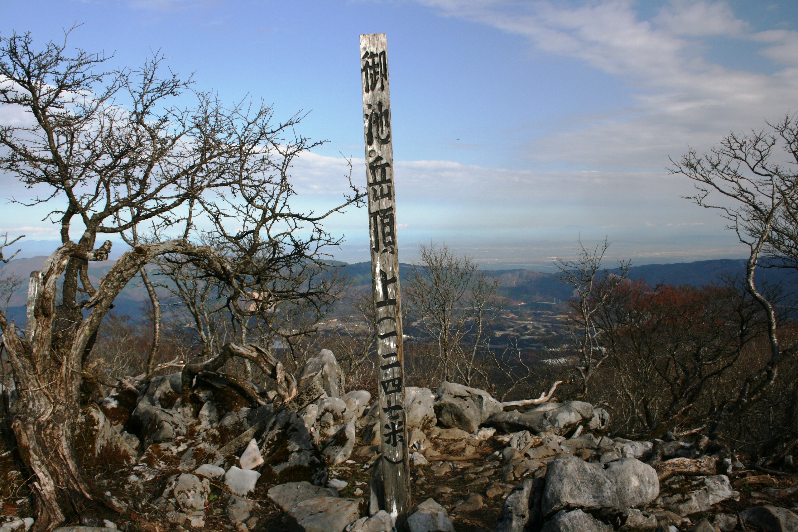 Peak of Mount Oike in Suzuka Mountains, Japan.